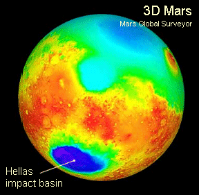 The massive Hellas impact basin in the Southern Hemisphere.